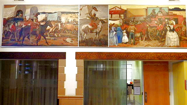 WPA mural, Phoenix AZ PO, LaVerne Nelson Black, painter